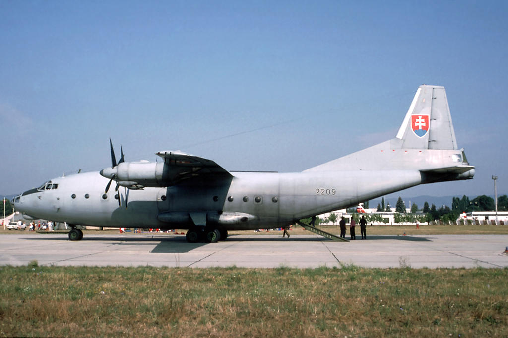 Bratislava airport, 17 August 1994. An-12BP 2209 (the Czechoslovak markings still visible on the tail) was here for an international para event. The civilian jumpers were camping behind the Antonov in tents, next to the taxiway! Also two An-26's were used.